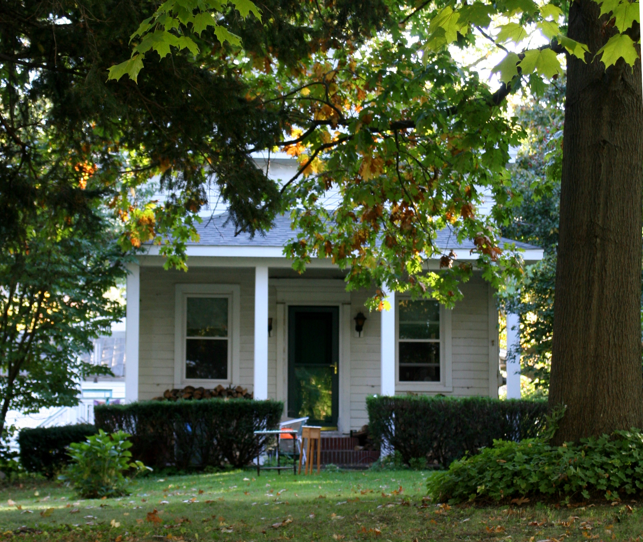 Clark House Built c. 1828 for Adam A. Clark (first Clarksville Postmaster and local innkeeper) and wife Betsy. Clarksville New York named in his honor.